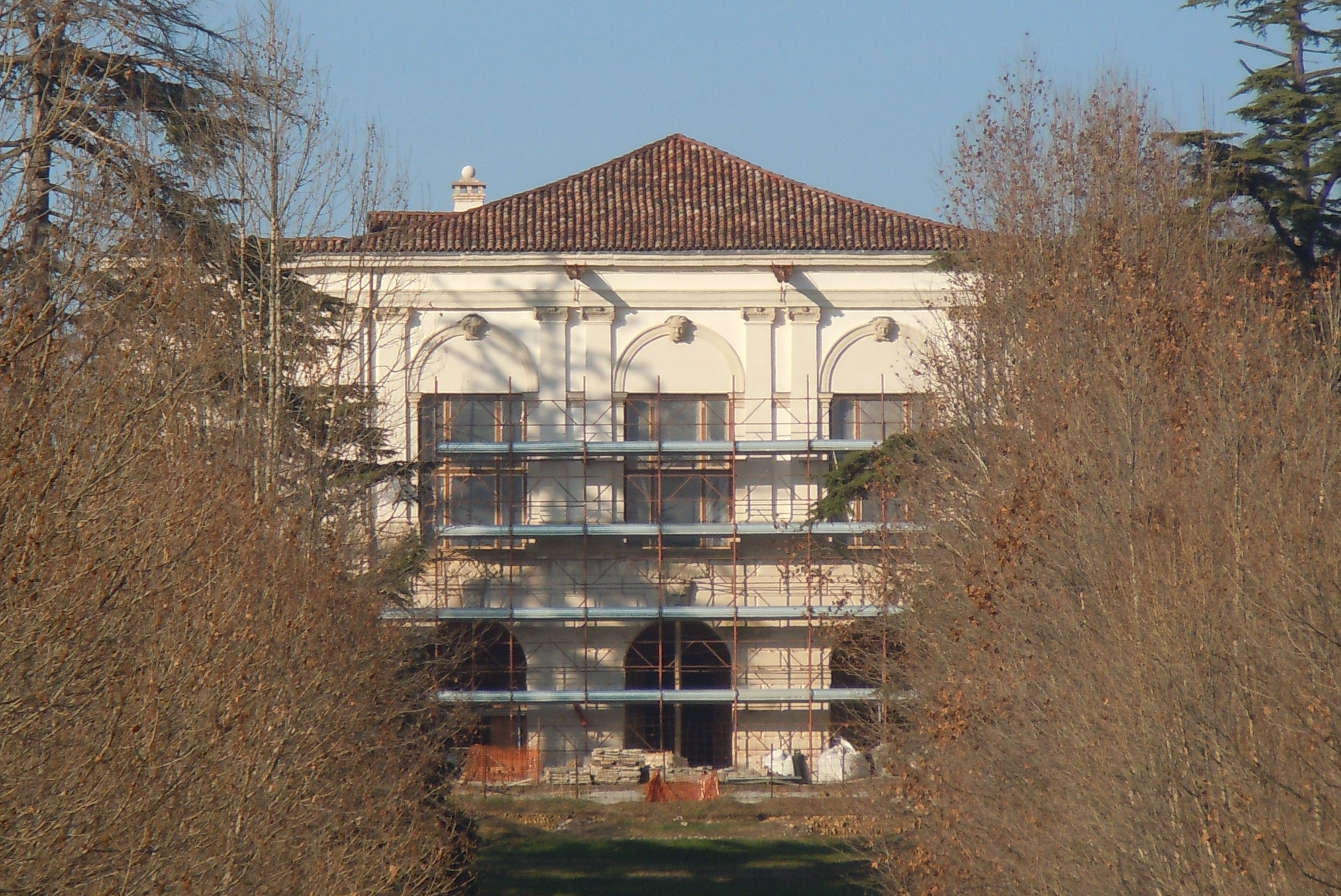 Villa Lippomano